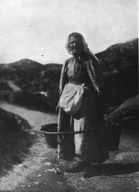 "Along the shore at Cape Breton, Canada" Photograph by Edith S. Watson